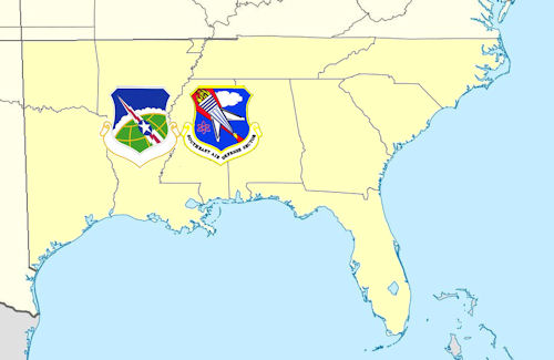 23d Air Division - SE Air Defense Sector 1979-1987 Map